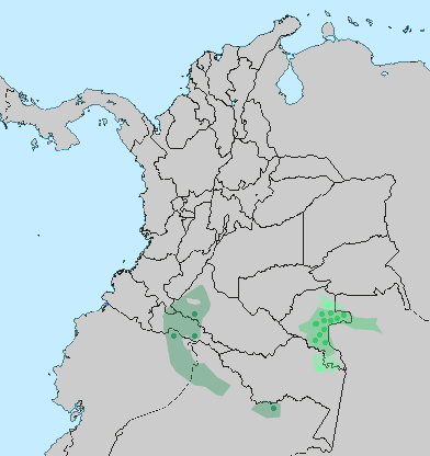 East Tukano (nuclear green), Central Tukano (Turquoise green) and West Tukano (dark green). Spots indicates actual locations of different tukano languages, shadowed area intended extension before 20th century.